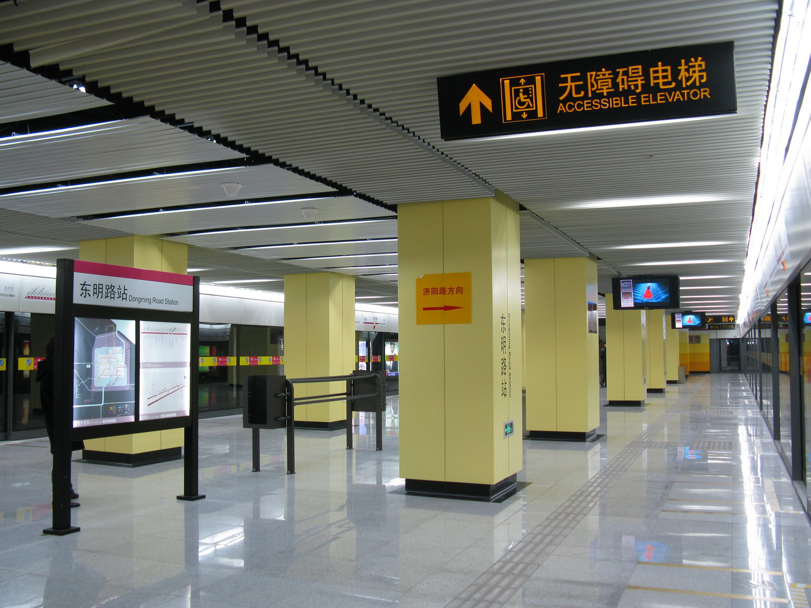 东明路站 6号线月台 Line 6 Platform of Dongming Road Station